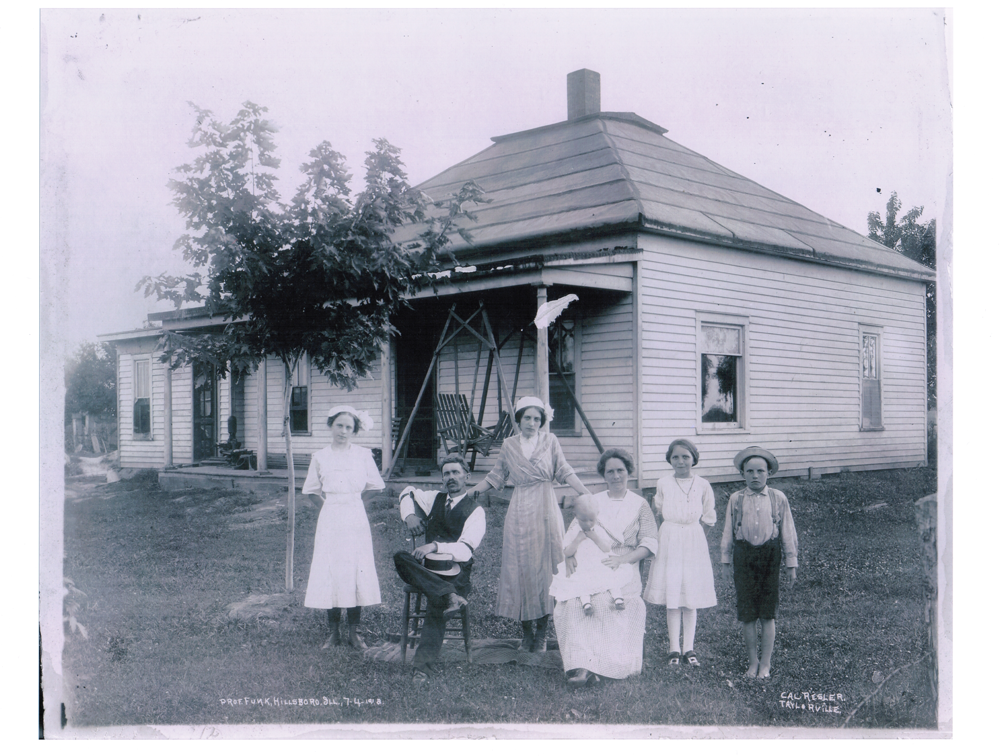 Photograph of the family of Otto Funk, Hillsboro, Illinois, 1912: Myrtle (14), Otto (44), Viola (15), Della (35) with baby Clara Del (2), Rosa (12), and Ben (10). A sixth child, Otto, was born four years later. Original caption: “Prof. Funk, Hillsboro, Ill., 7-4-1912”